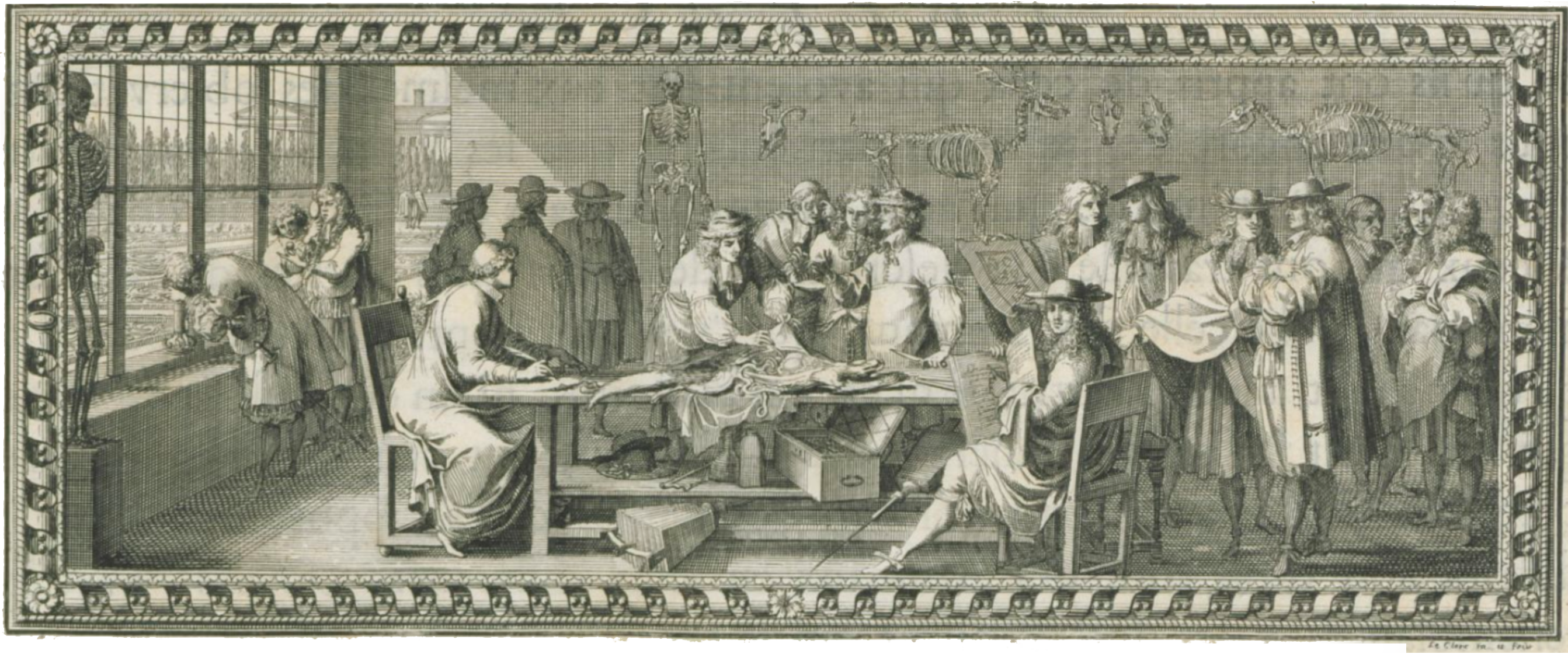 A Dissection and Microscopic Observations. Huygens uses a lens at the window; Louis Gayart dissecting while Pecquet, Perrault, and perhaps Mariotte (holding spectacles on his nose) discuss his work. Colbert observes from the right. Mémoires pour servir à l'histoire naturelle des animaux, p. 4